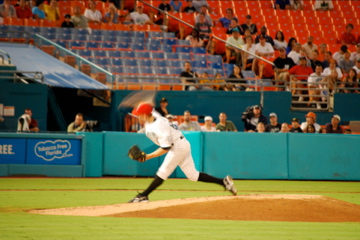 Tim Wood